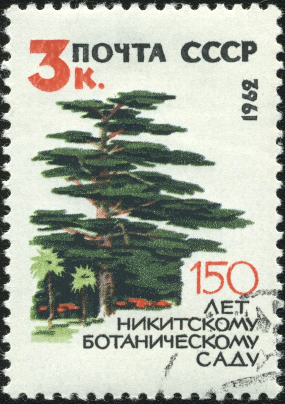 A USSR stamp, 1962